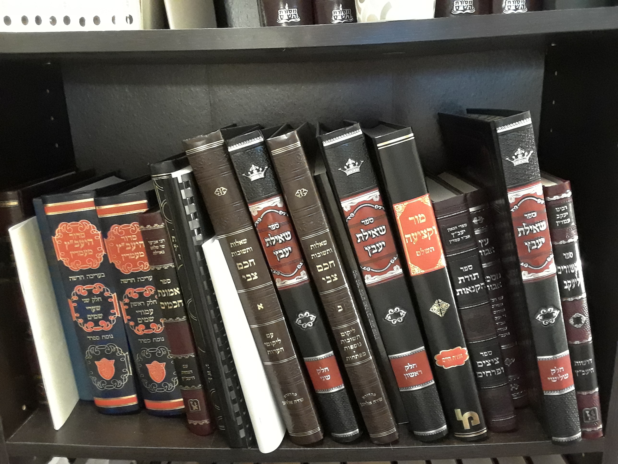 Hebrew books (seforim) on shelf, mostly works of Jacob Emden